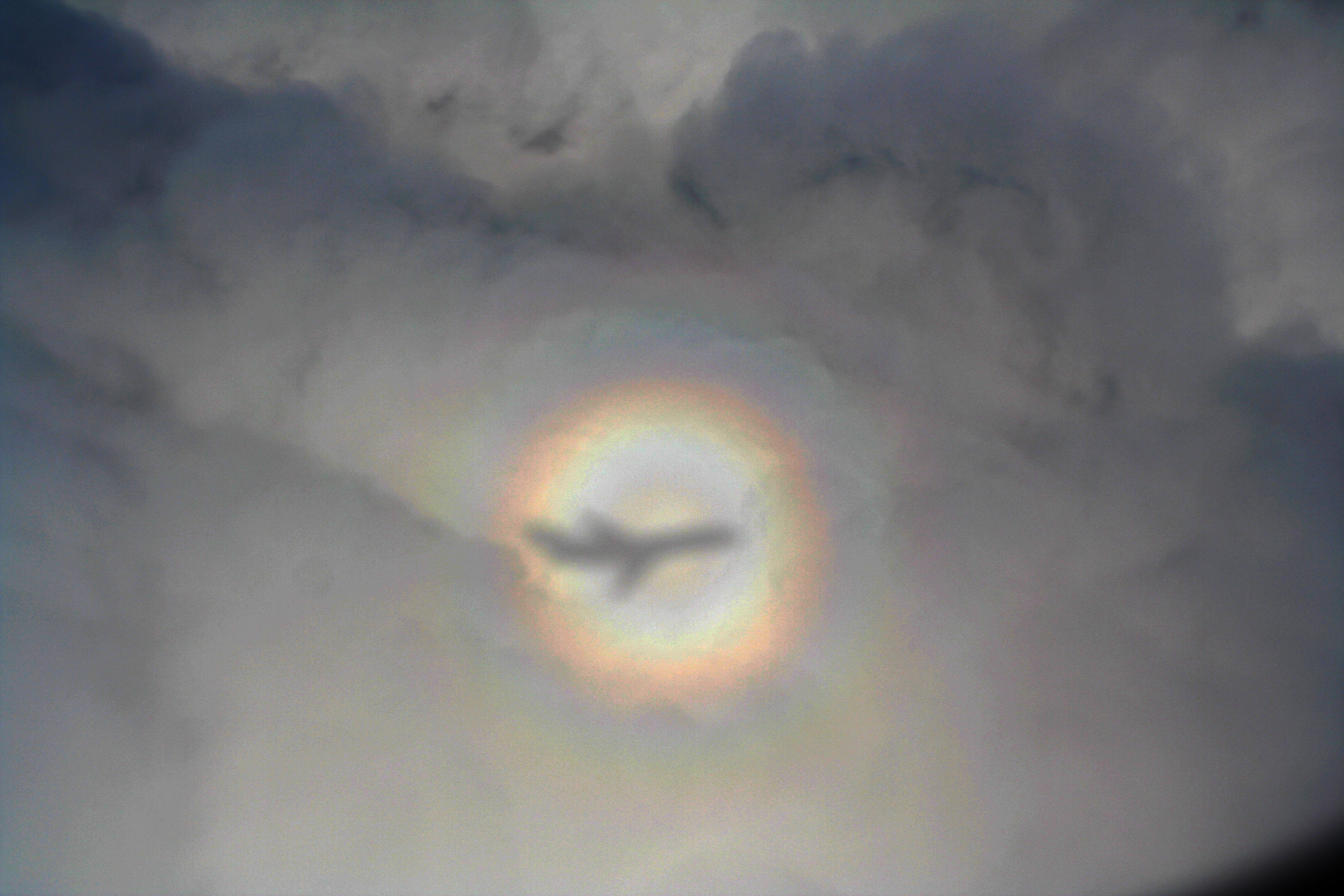 Solar Glory over Canada